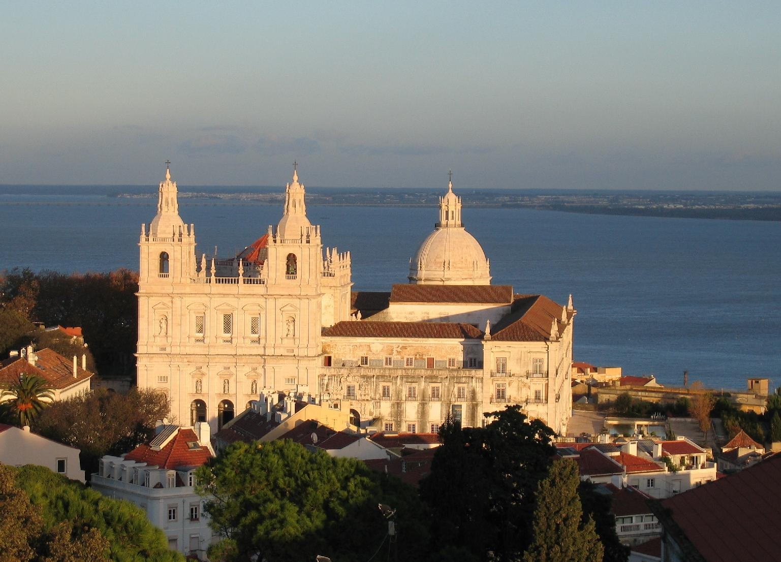 The Monastery of São Vicente de Fora, Lisbon, Portugal. Taken 18:00, 9 December 2006 from the Castelo São Jorge.